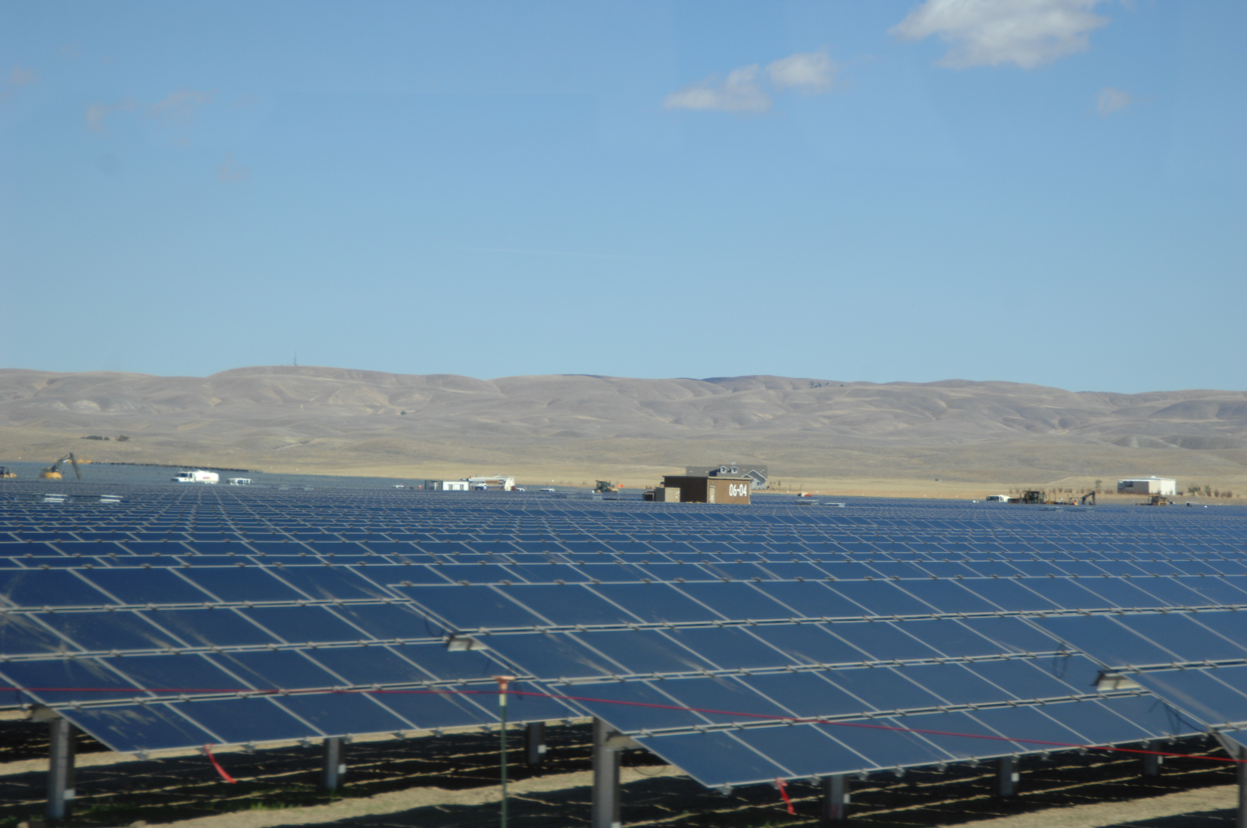 Photo Credit: Sarah Swenty/USFWS